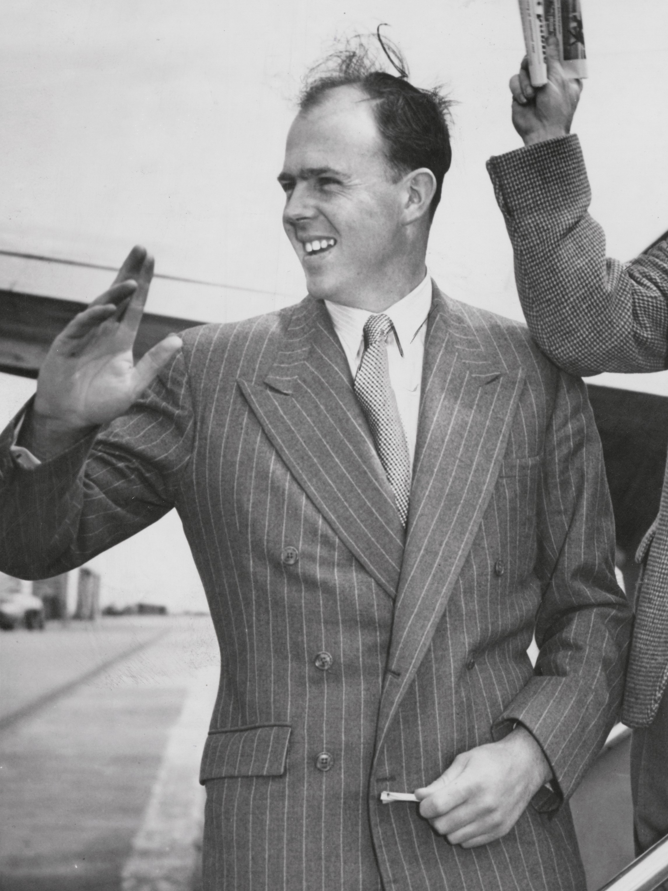 Victorian cricketer Bill Johnston boarding a plane to Brisbane for the first test match; 1951-1952 Australia v West Indies